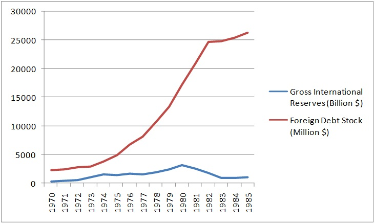 Under Marcos Era